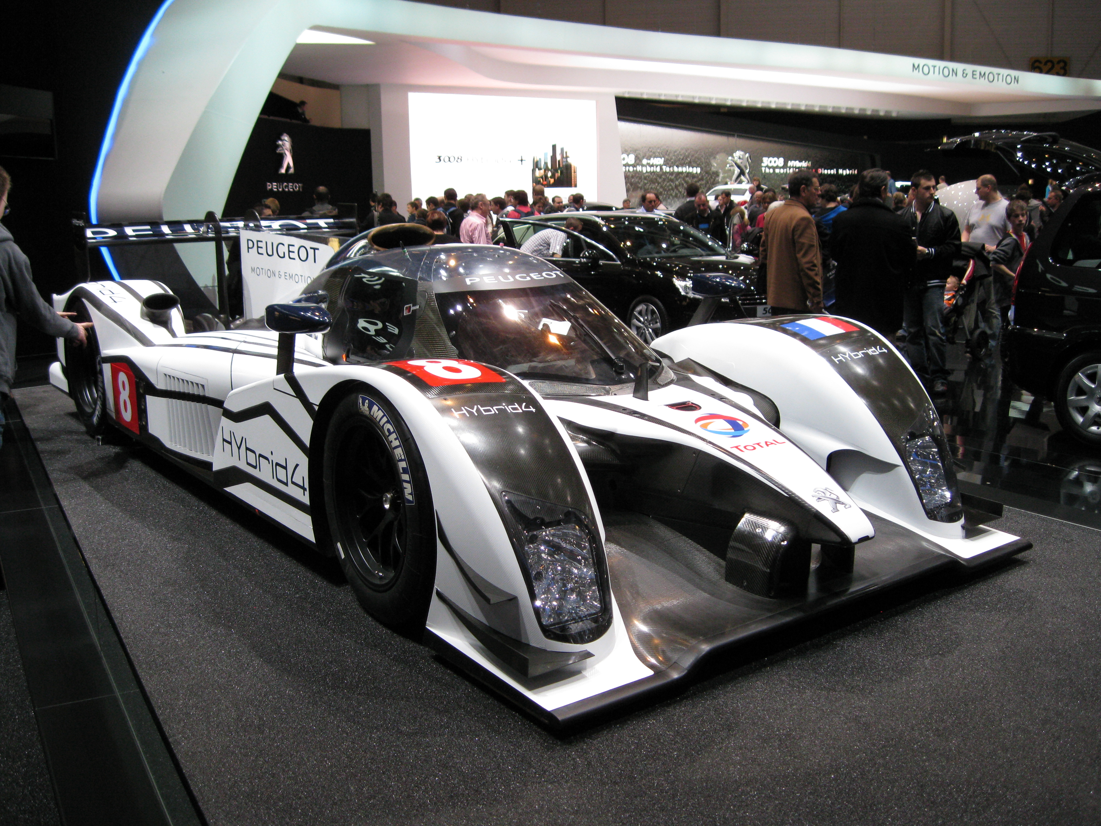 Geneva Motor Show 2011